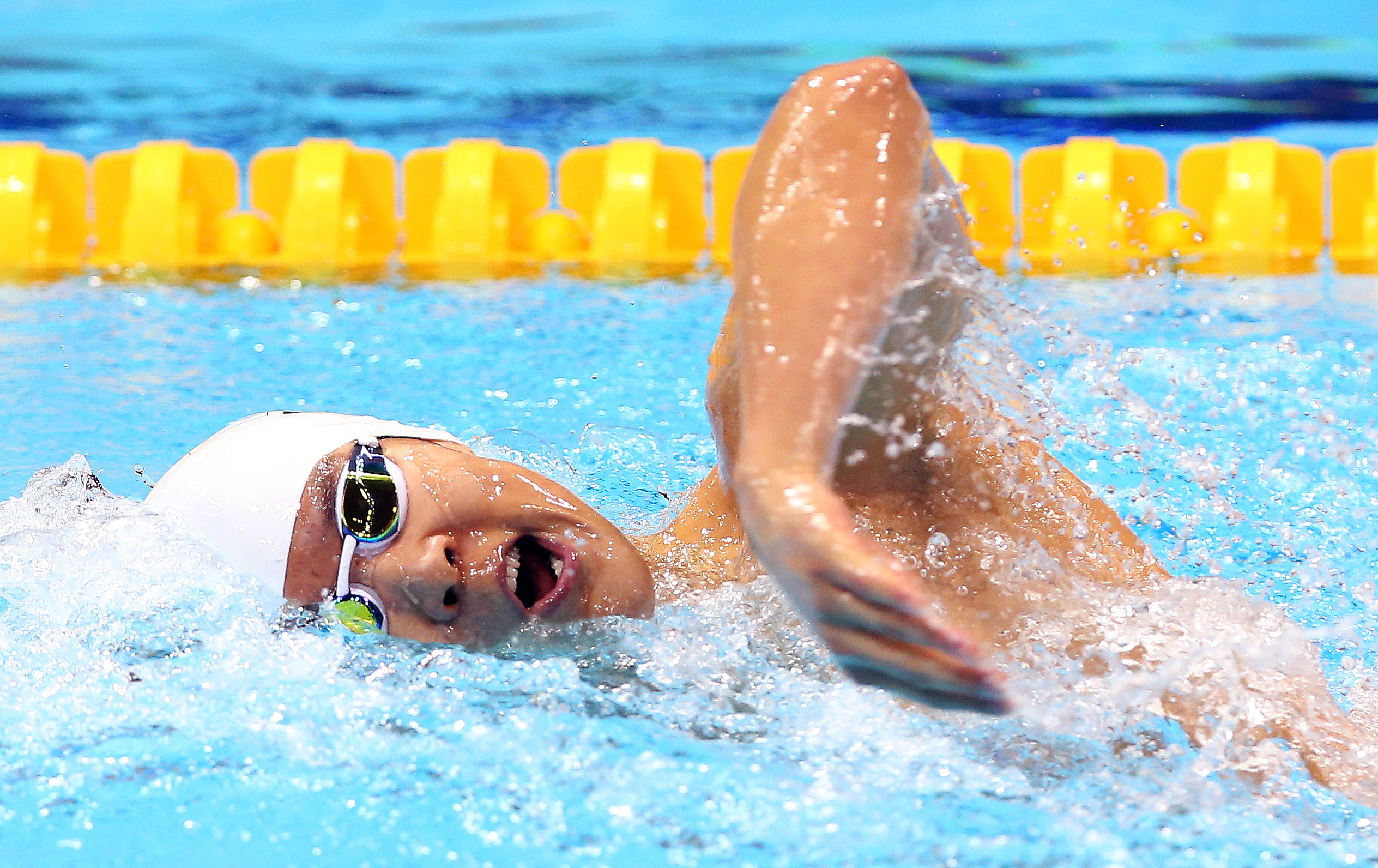 2012 London Olympic Games Korea Park Taehwan Men's 400m Freestyle Silver medal 2012.7.29. Photo by Korean Olympic Committee Ministry of Culture, Sports and Tourism Korean Culture and Information Service 2012 런던 올림픽 박태환 남자 400m 자유형 은메달 획득 사진제공 - 대한체육회 문화체육관광부 해외문화홍보원